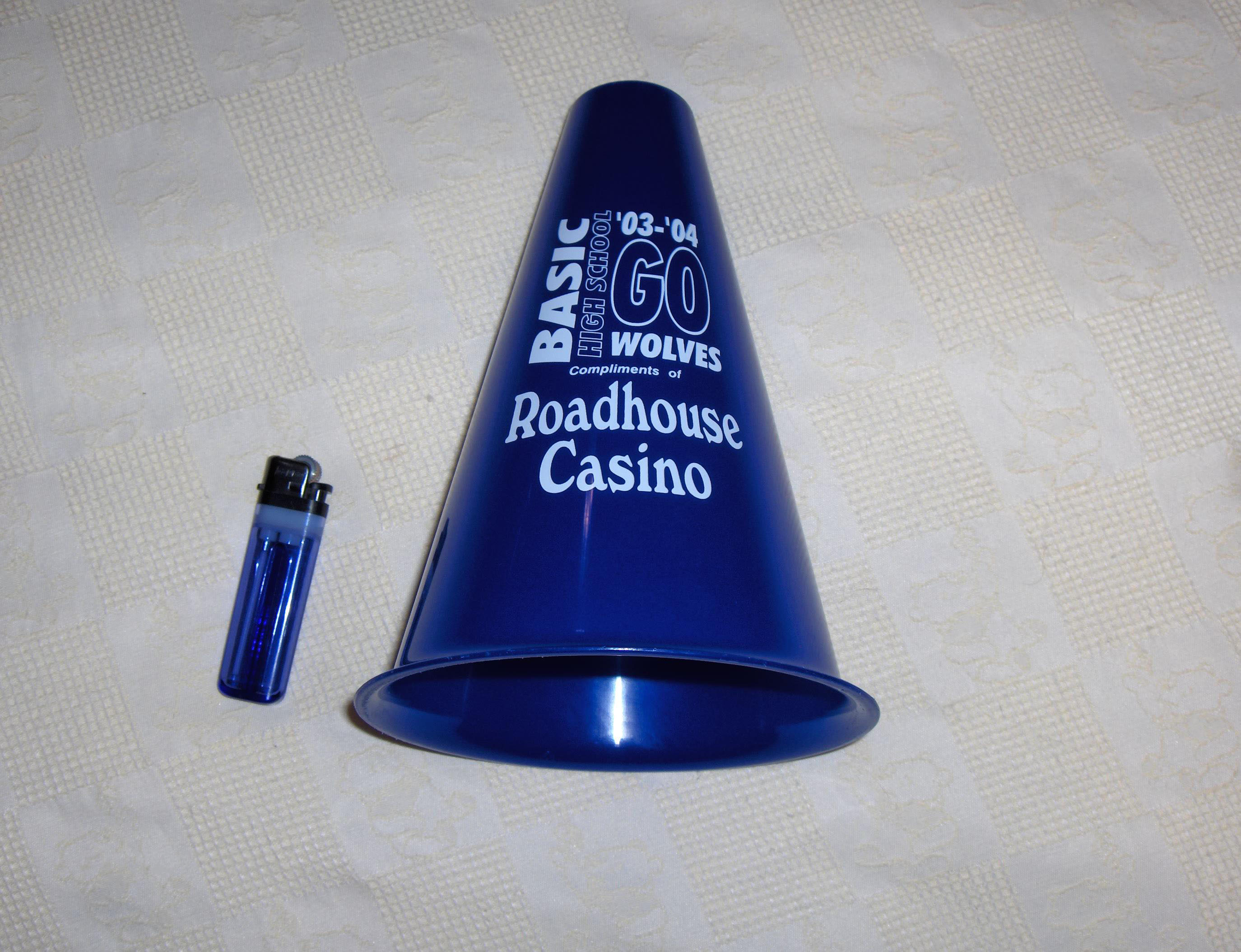 A passive megaphone with a three-inch lighter for scale. This type of megaphone is sold to sports fans for cheering at games.